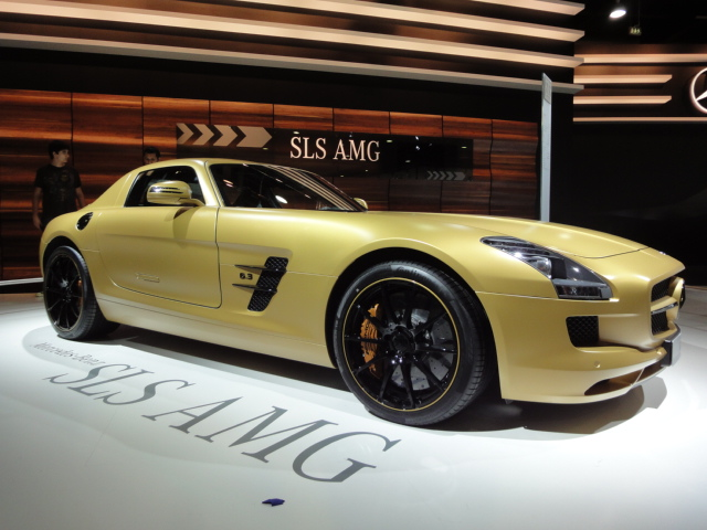 2009 SLS AMG Desert Gold at the 10th Dubai International Motor Show